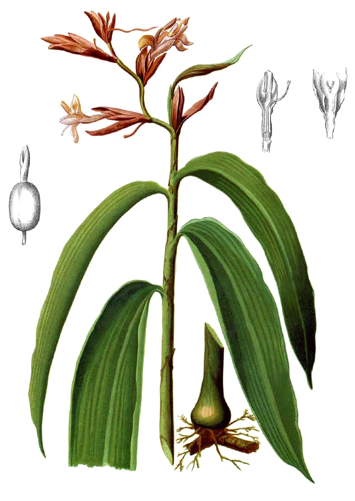 Plate from book Renealmia alpinia